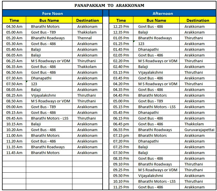 Transport Facility